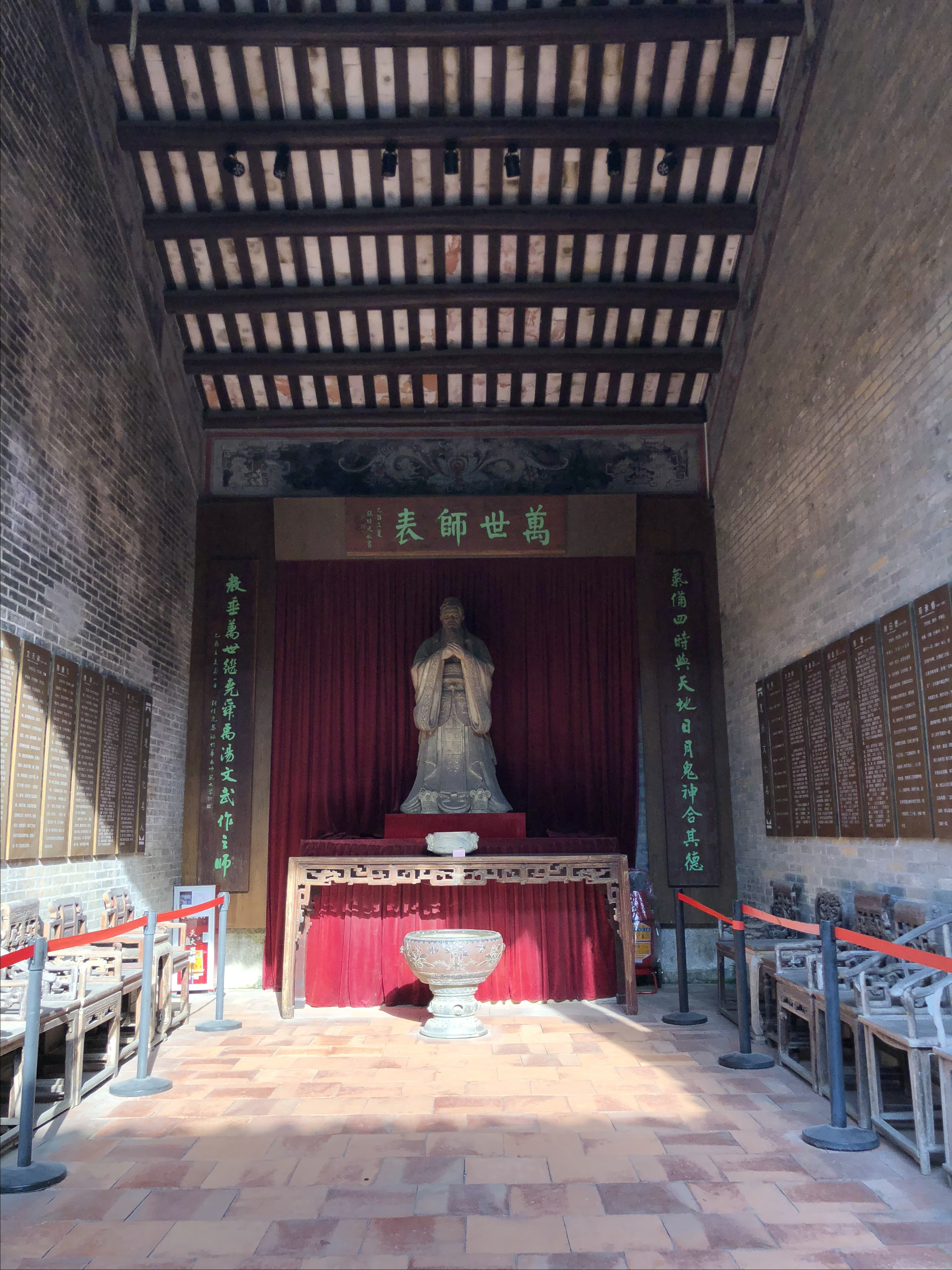 Huang Shi Sanctum